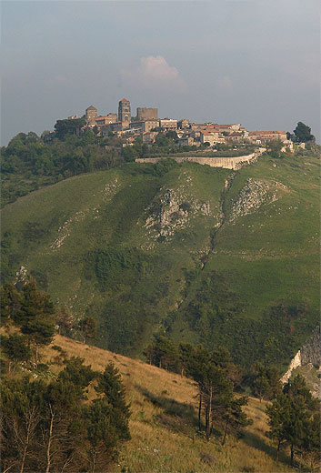 Old Caserta